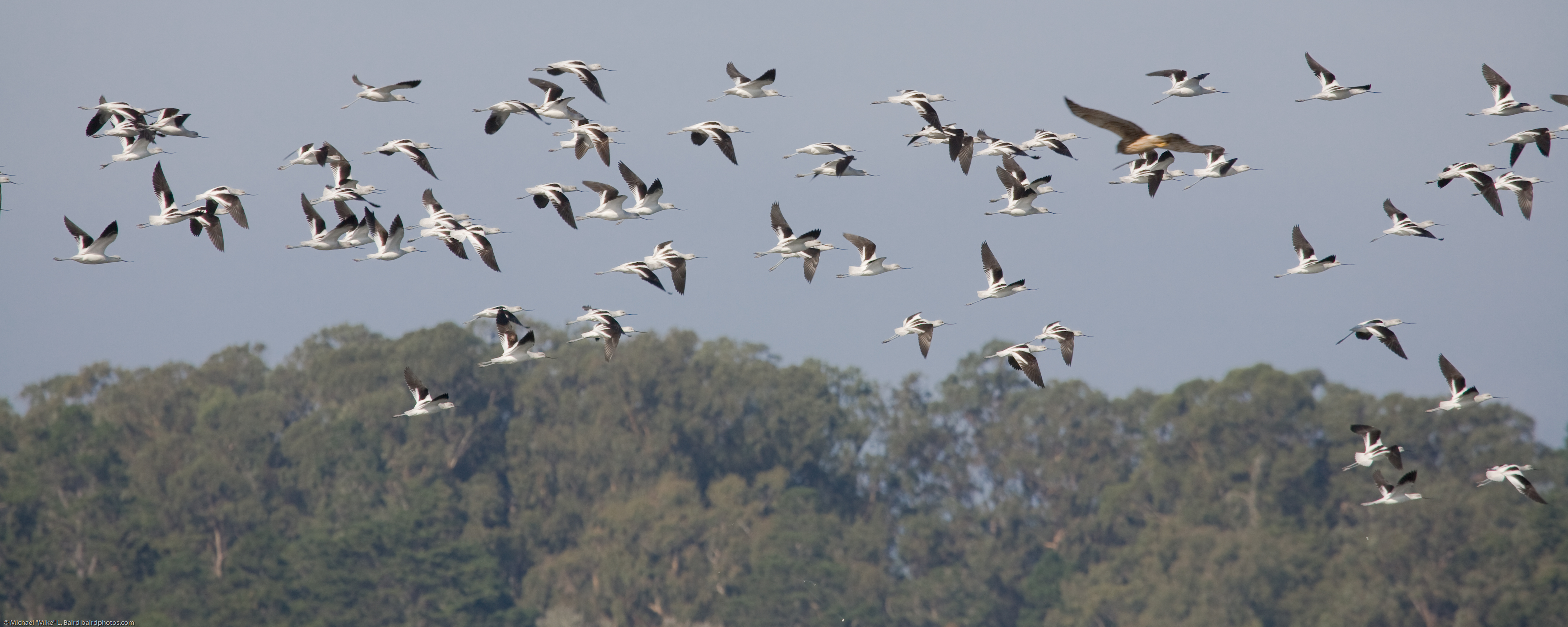 A Northern Harrier (Circus hudsonius) chasing up a flock of American Avocets (Recurvirostra americana) at Morro Bay, California.